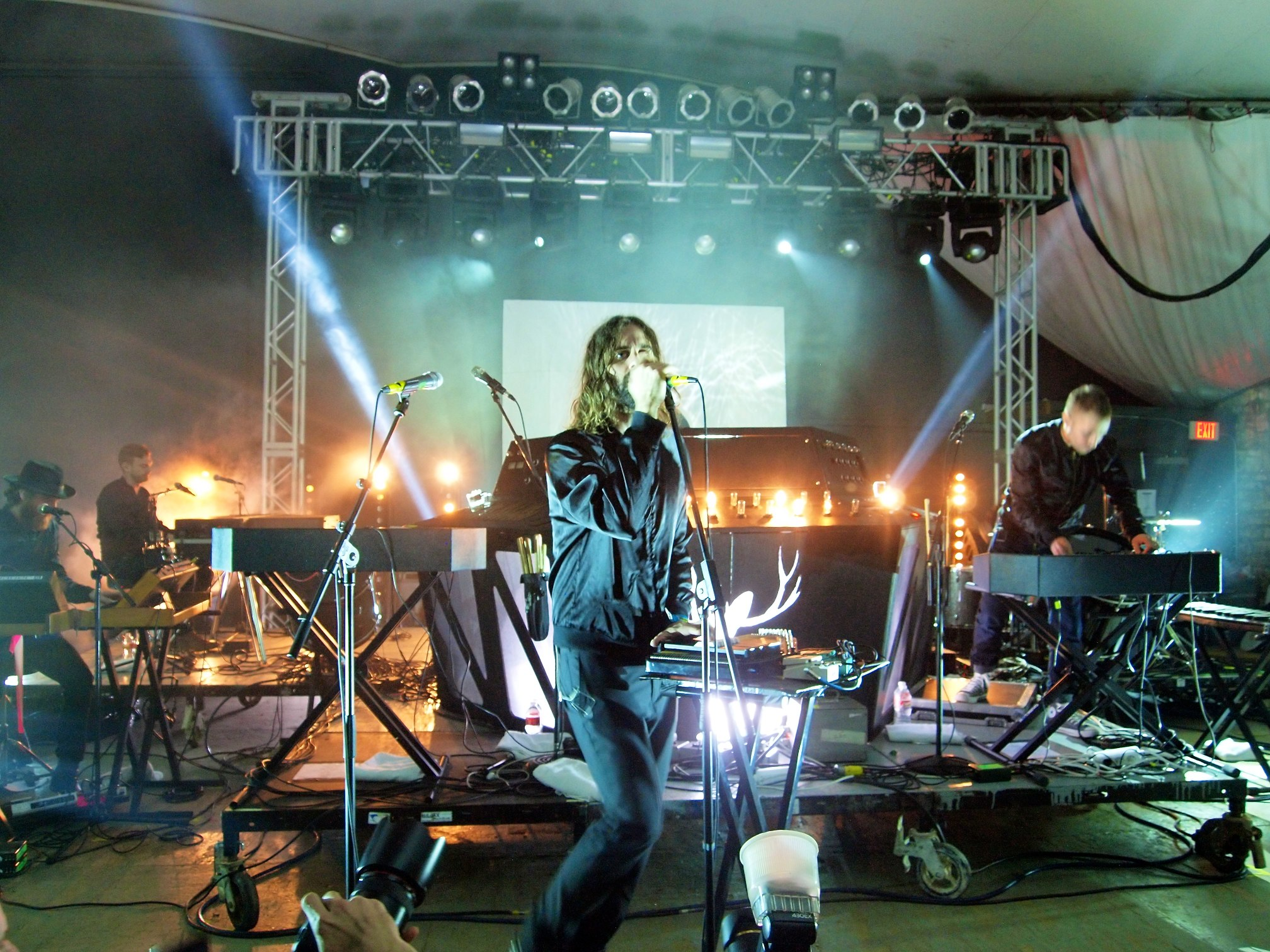 Miike Snow performing at SXSW in March 2012.